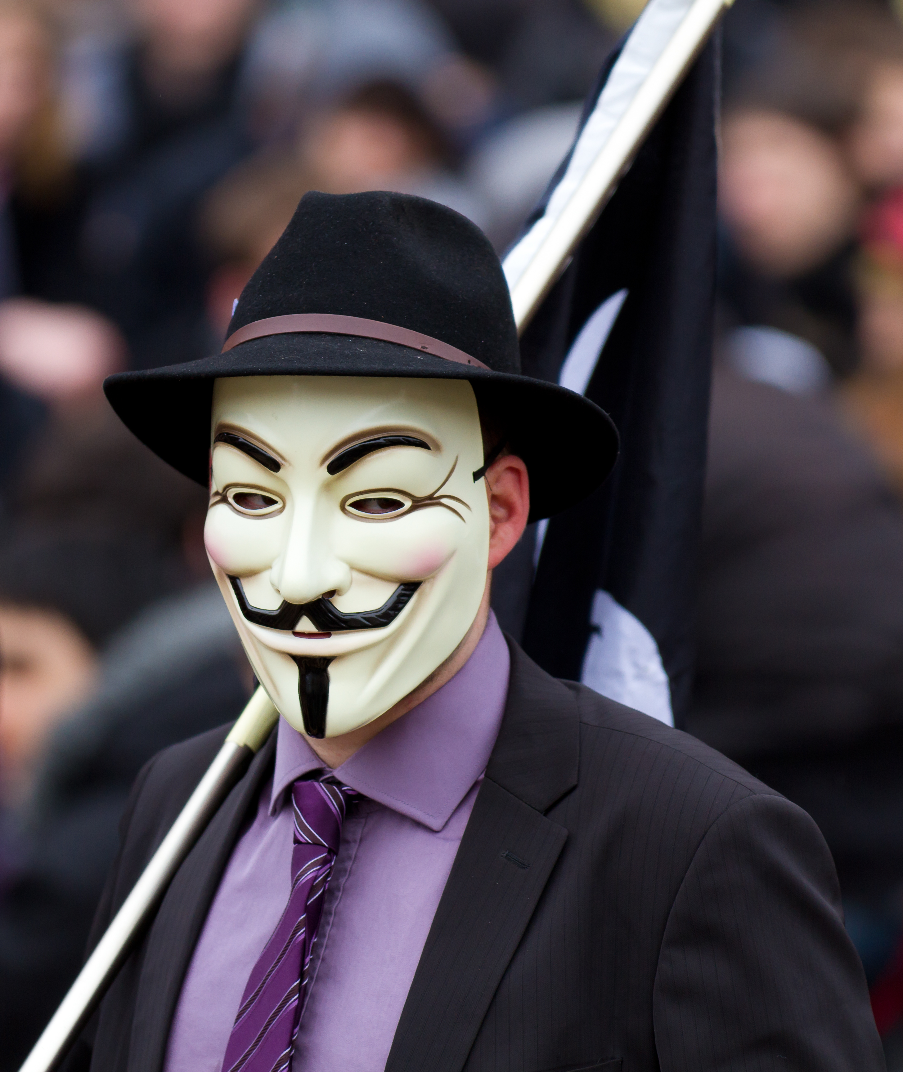 Protest against ACTA in Toulouse on January 28th, 2012